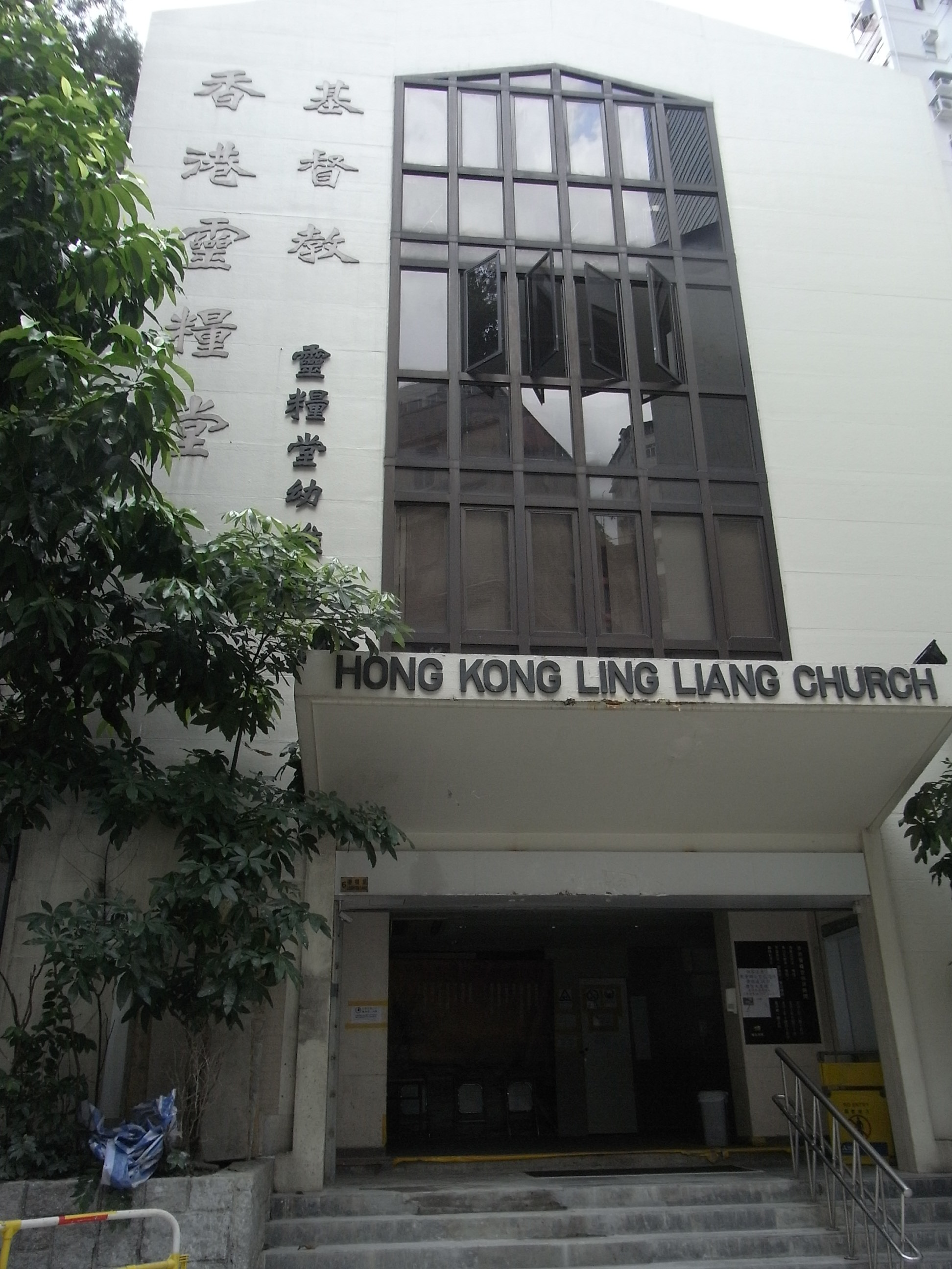 銅鑼灣禮頓道 禮頓里